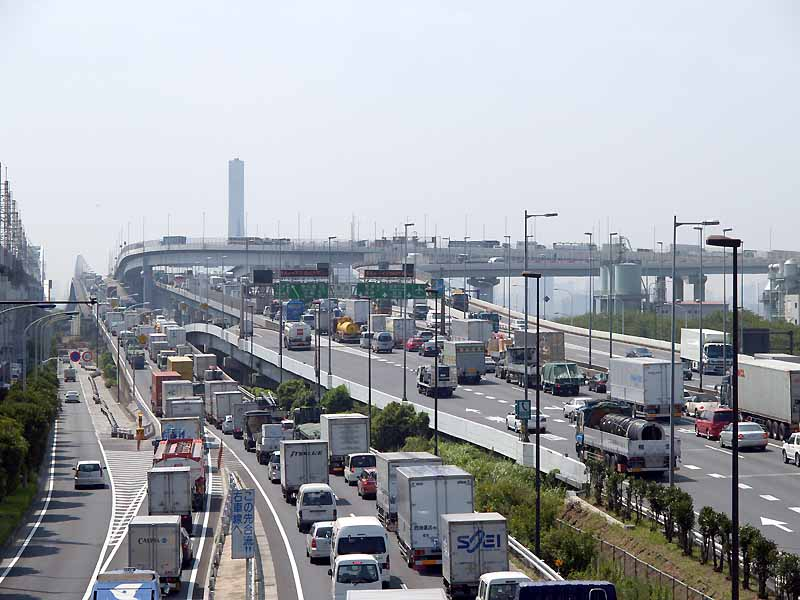 Kasai Junction on the Metropolitan Expressway and National Highway Route 357 in Edogawa Ward, Tokyo